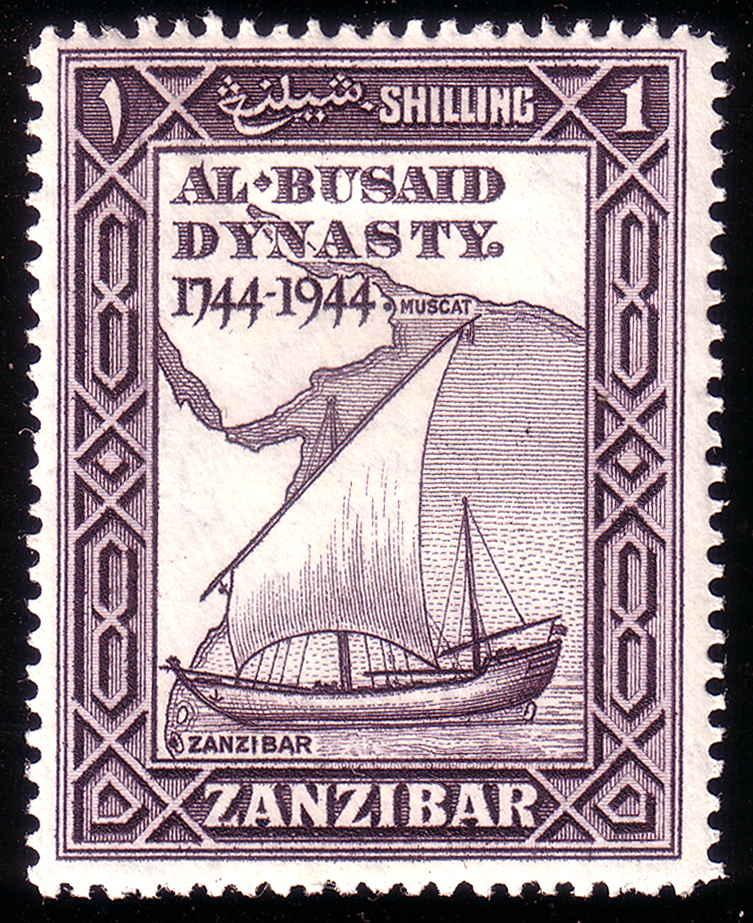 Postage stamp of Zanzibar, bicentennary of Al Busaid Omani dynasty, 1 shilling, 1944.